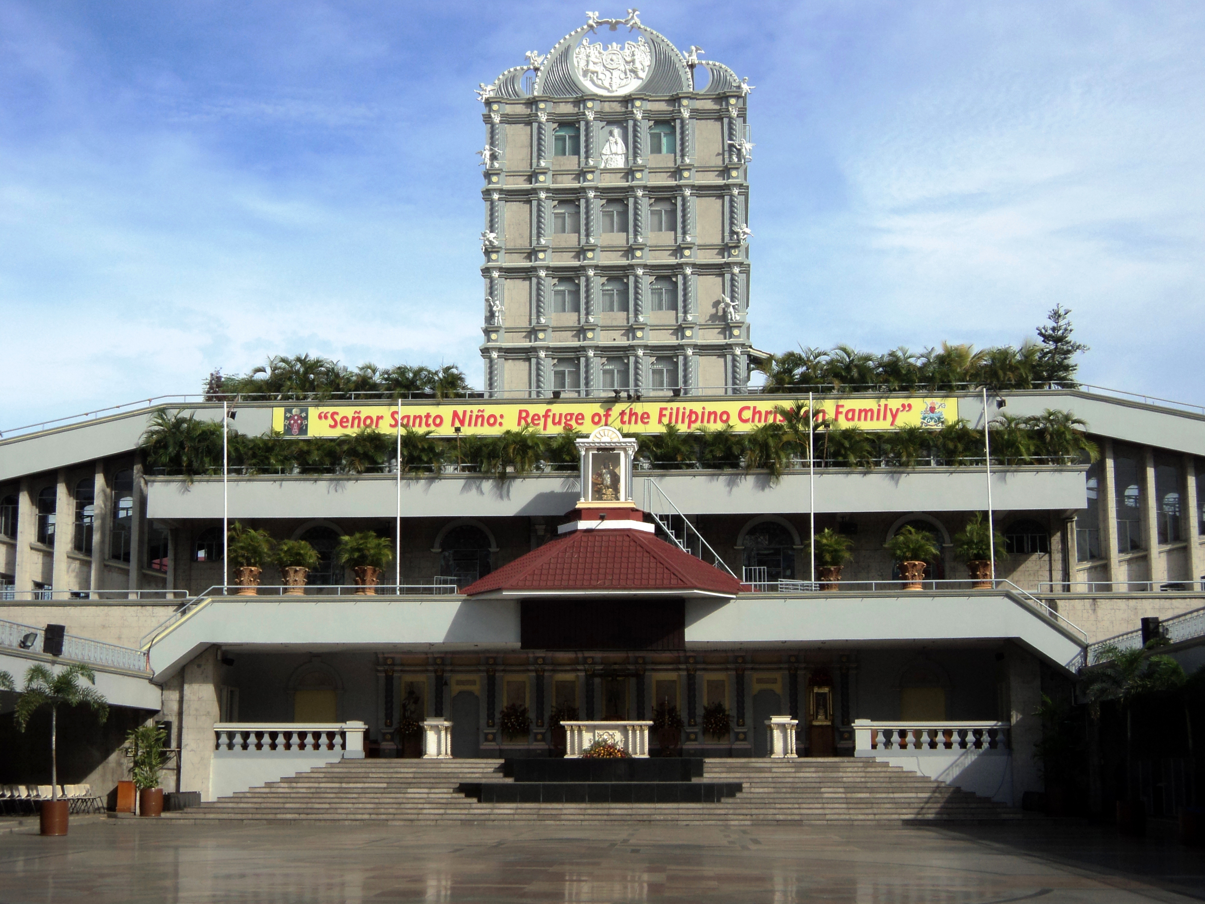 Pilgrim Center of Santo Niño Church and Convent in Cebu City